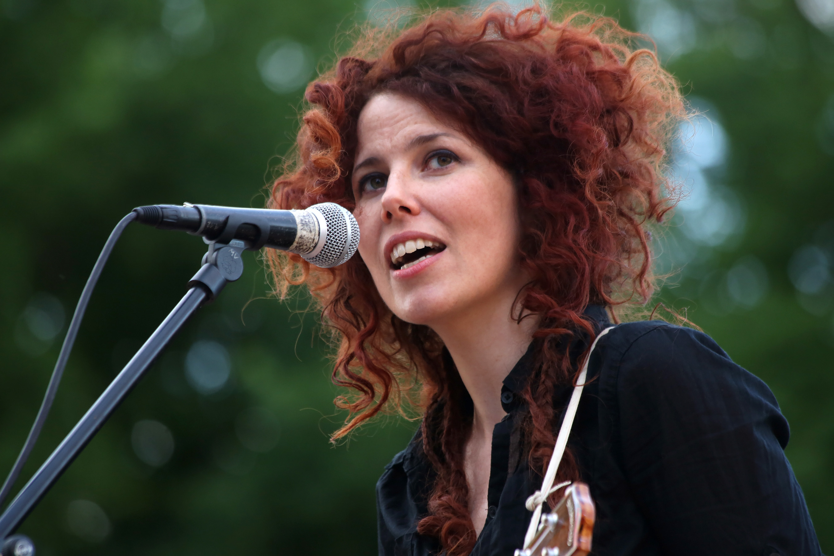 Eloui with Christoph Mateka - concert at "Fest für den Rundfunk" at Karlsplatz in Vienna, Austria.